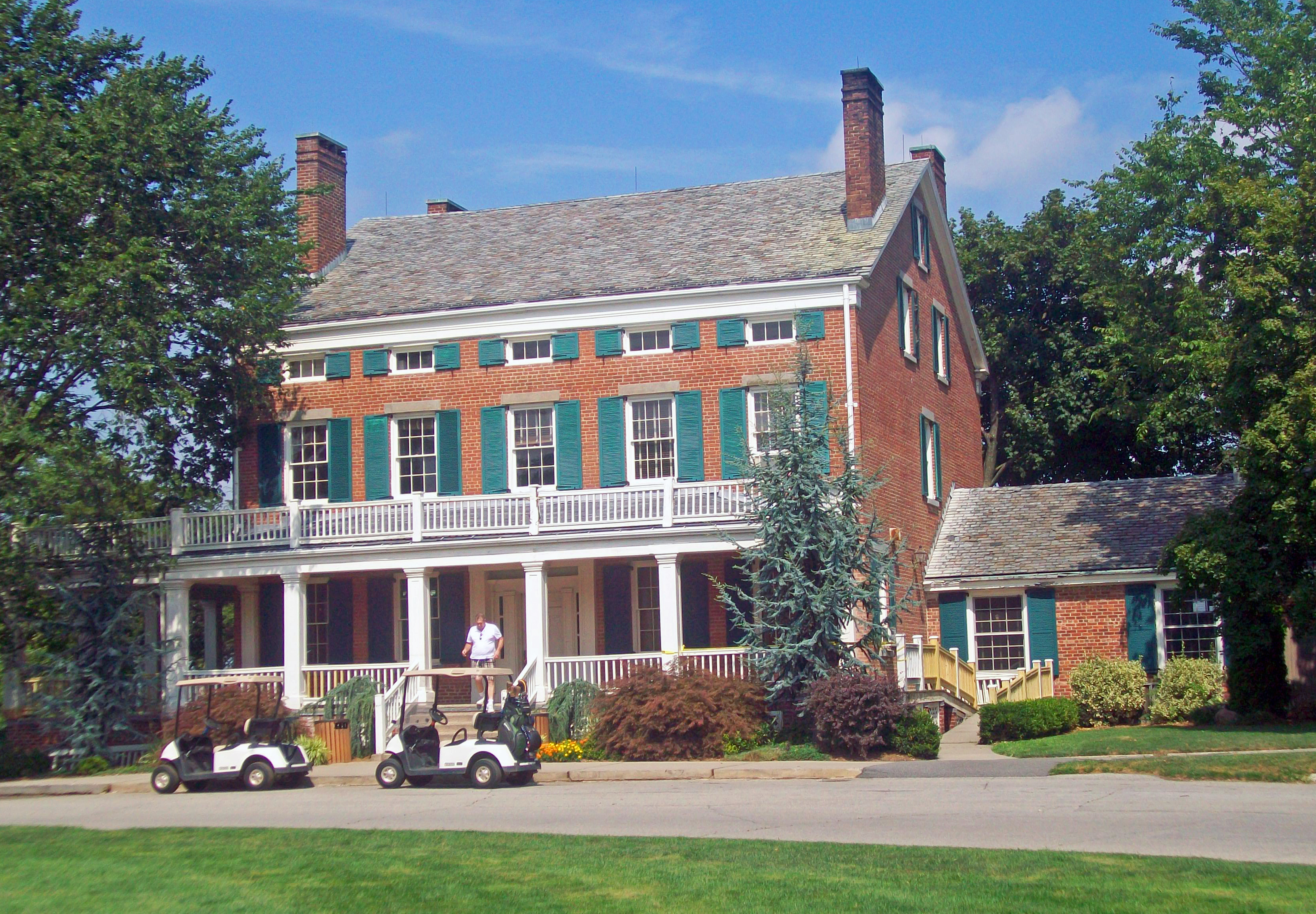 LaTourette House, in the Staten Island Greenbelt, Staten Island, NY, USA